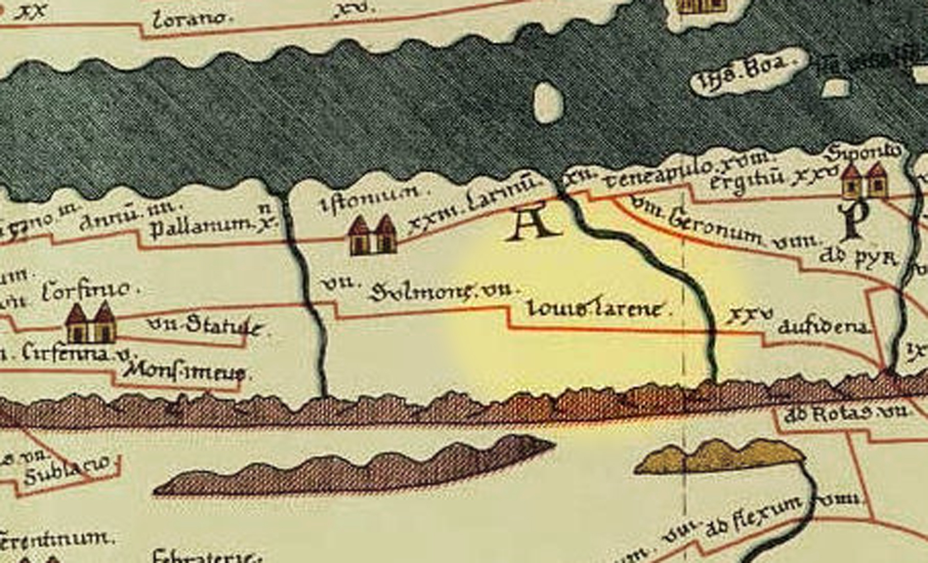 Tabula Peutingeriana: Iovis Larene